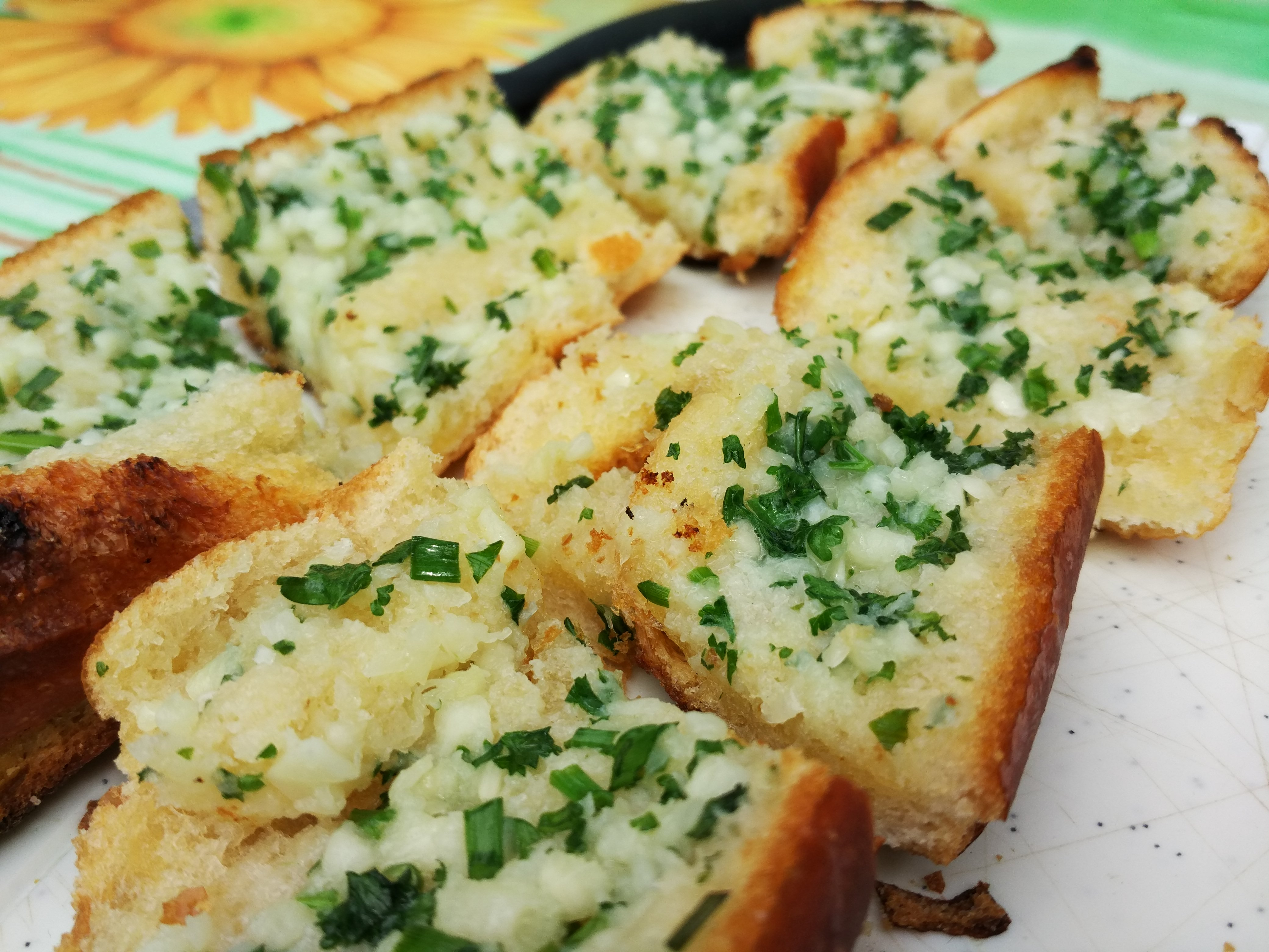 Slices of grilles garlic bread